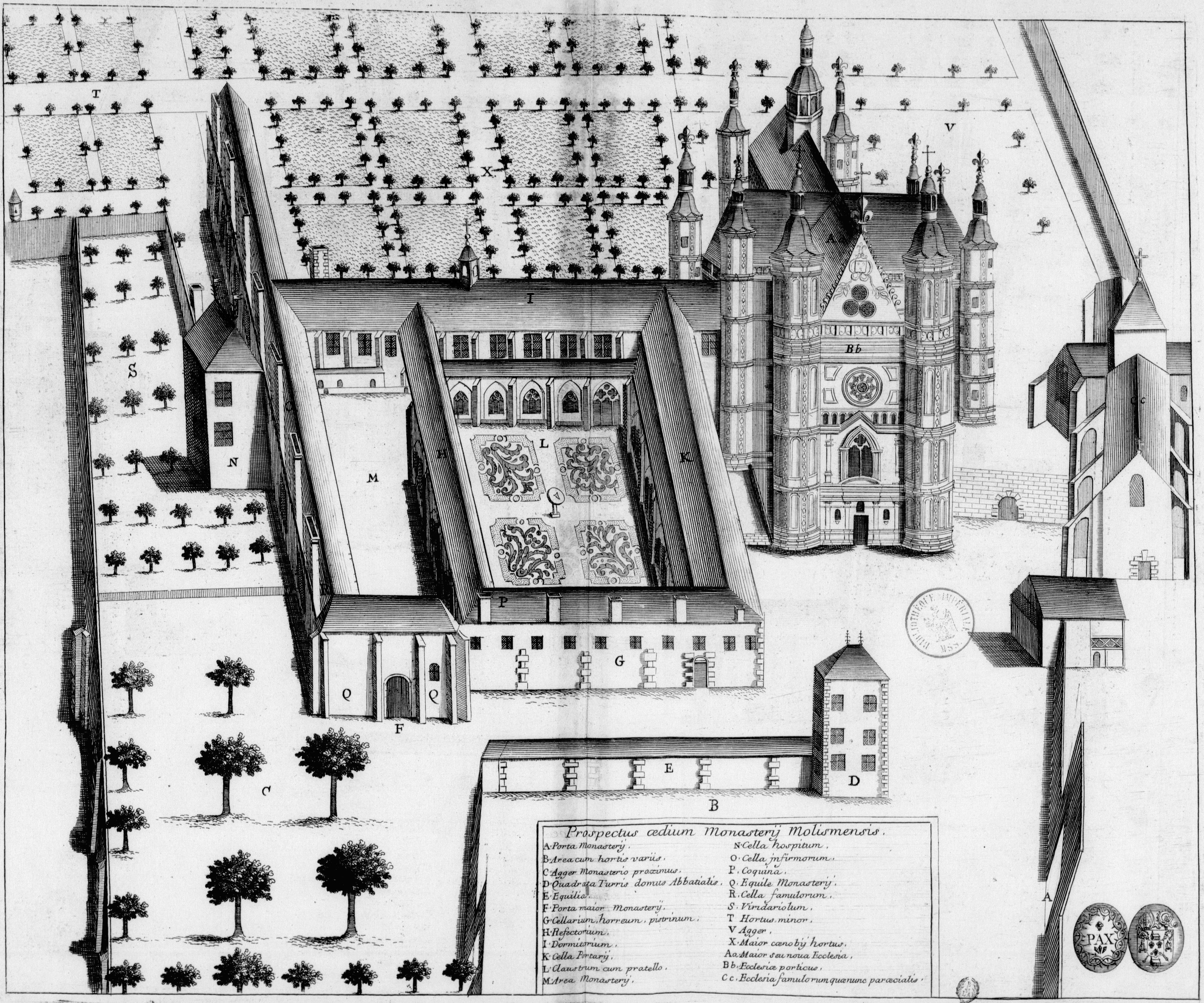 17th-century depiction of the Molesme Abbey in France, in the book Monasticon Gallicanum. .